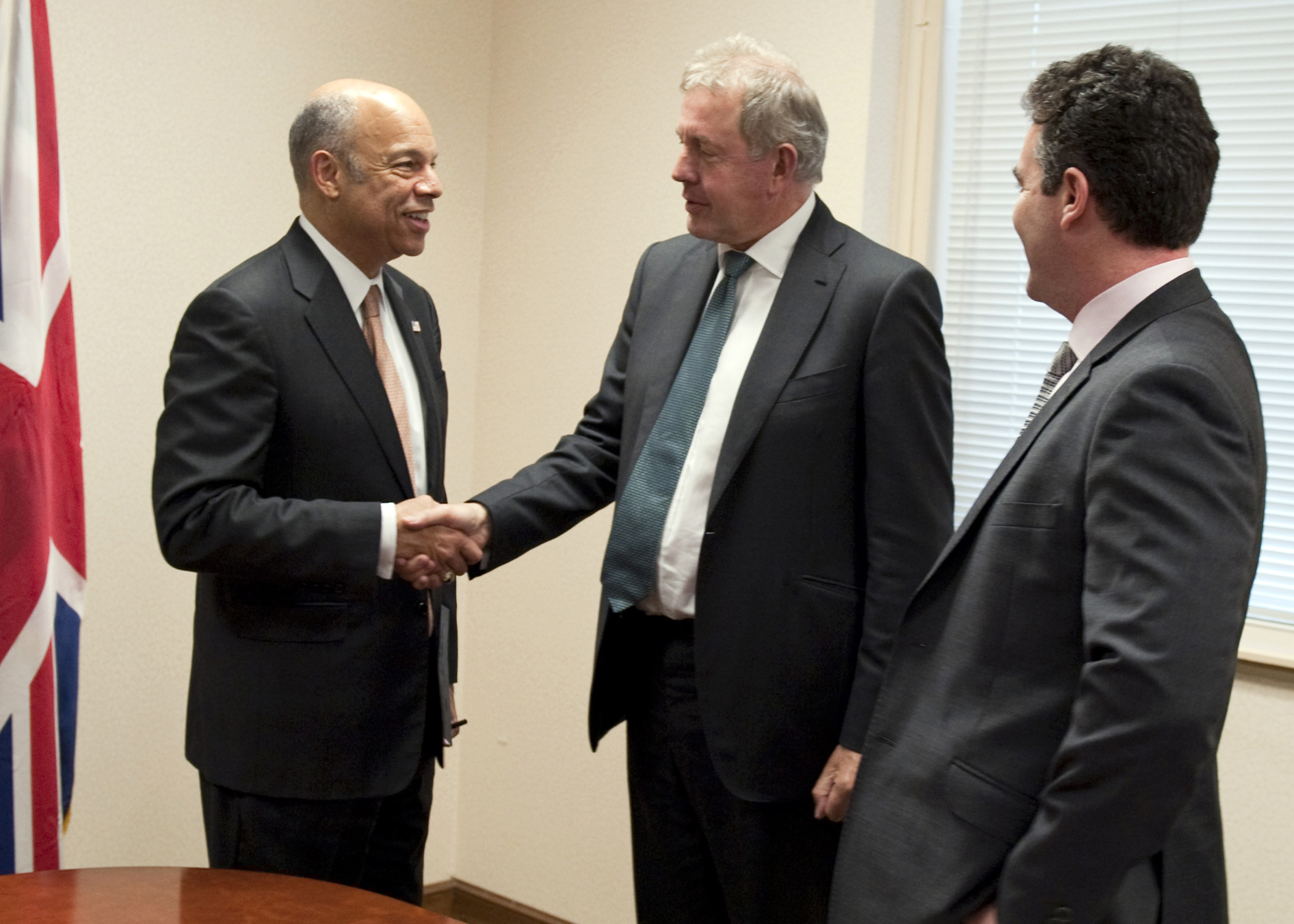 WASHINGTON – Secretary of Homeland Security Jeh Johnson hosts a meeting with Sir Kim Darroch, British Ambassador to the U.S. in Washington, D.C., May 4, 2016. Official DHS photo by Barry Bahler.